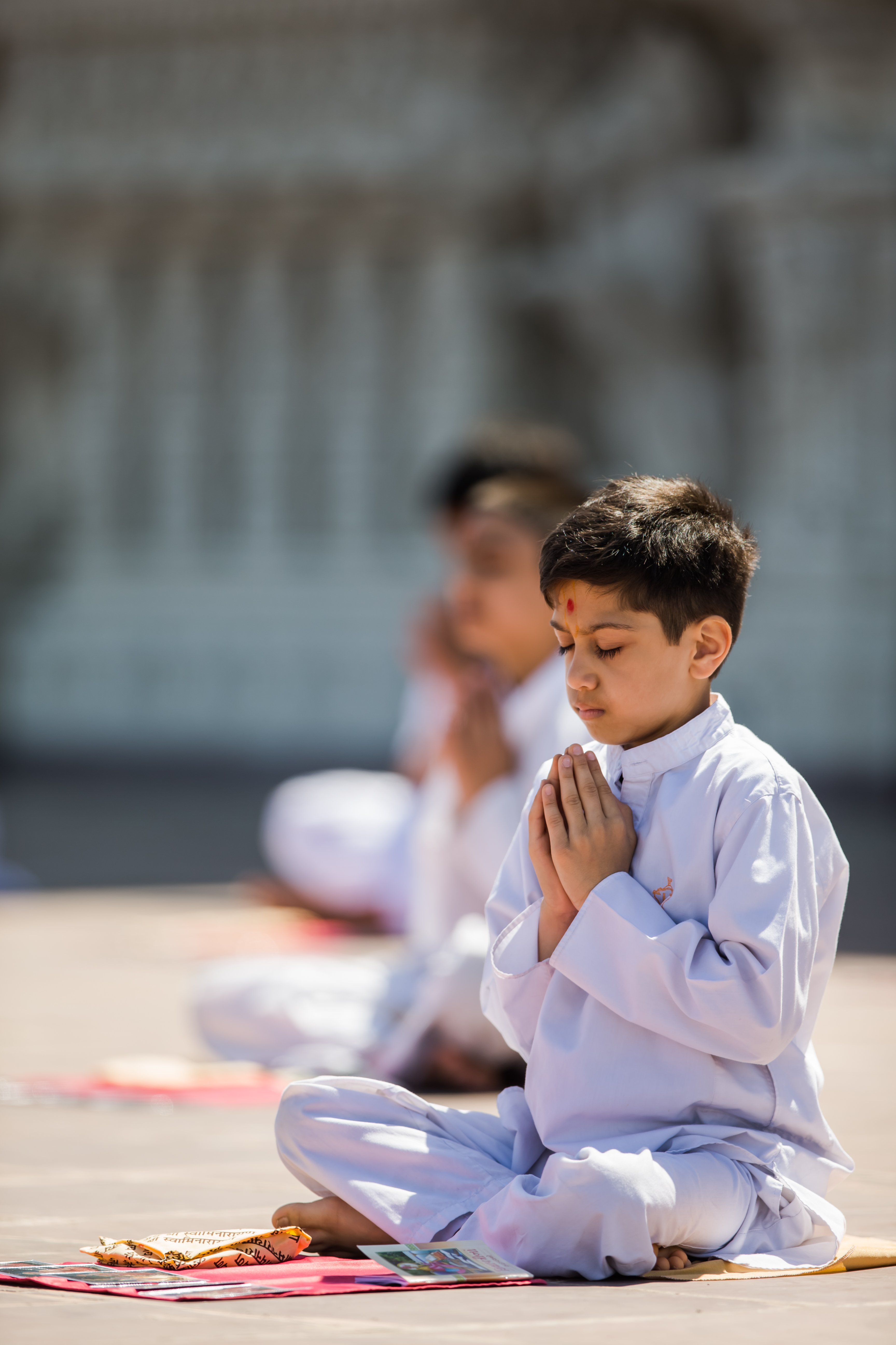 Boy offering prayers